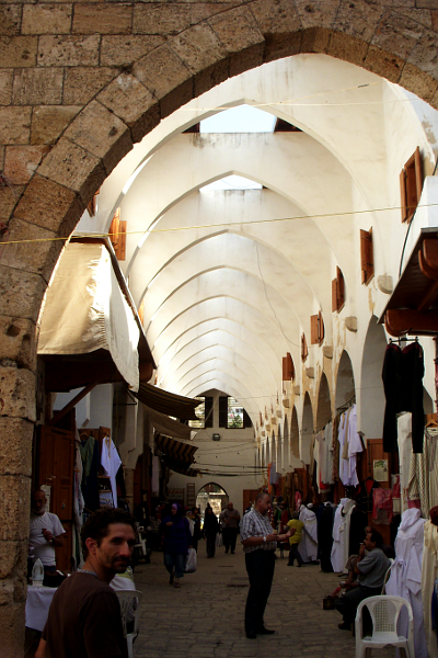 The Tripoli souks are the closest you get to real souks in Lebanon. "The one in Beirut are just a joke, and a bad joke."